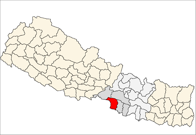 FrenchCarte de localisation dudistrict de Parsa(wp-FR),au Népal (wp-FR).EnglishLocation map ofParsa District(wp-EN),in Nepal (wp-EN).